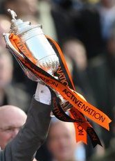 peter houston scottish cup winning manager 2010